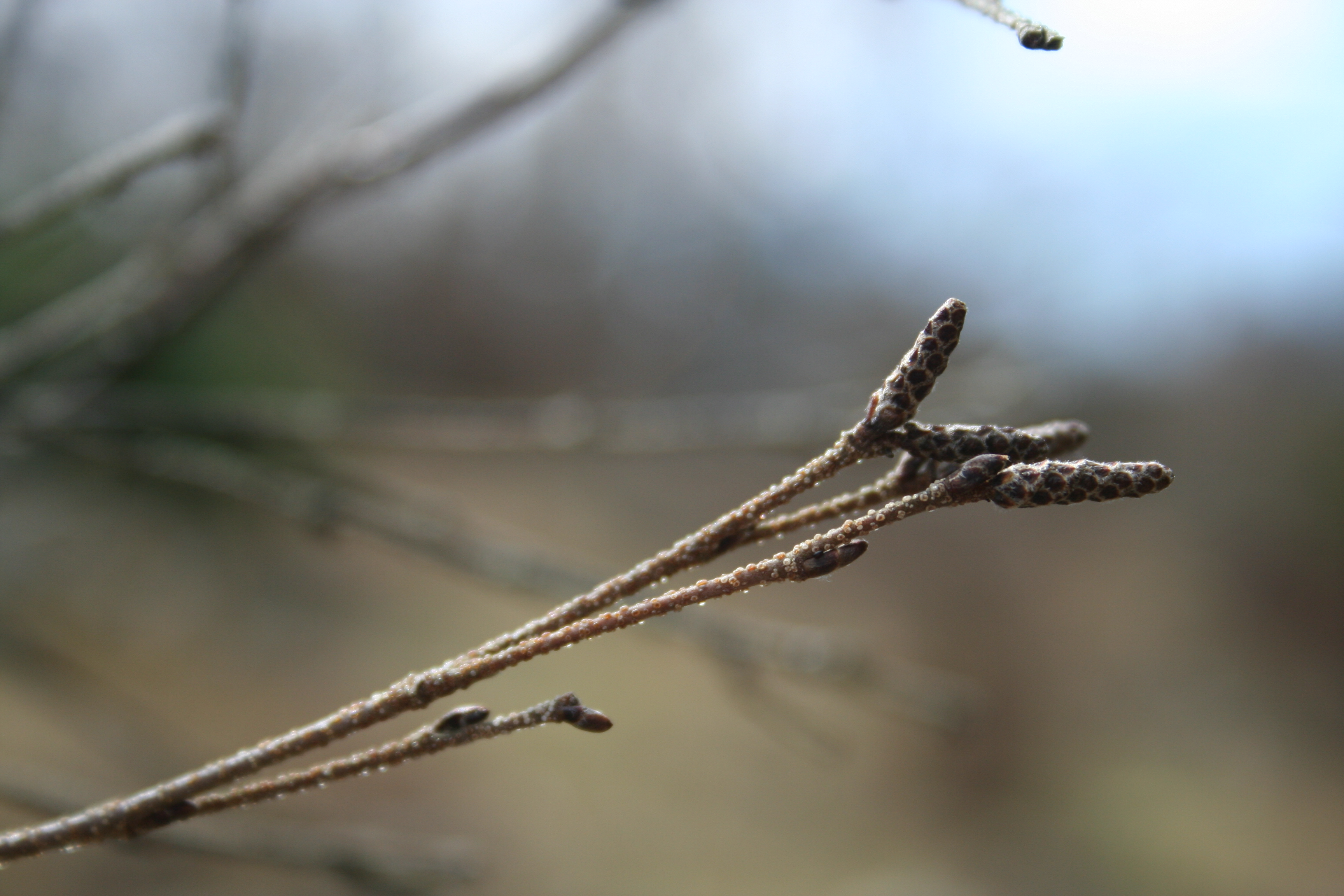 Catkins of Betula fruticosa. Early May at Oulu University Botanical Gardens, Finland.